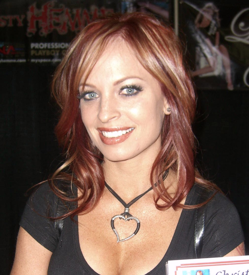 Professional wrestler Christy Hemme at the Big Apple Convention in Manhattan. This photo was created by Luigi Novi. It is not in the public domain, and use of this file outside of the licensing terms is a copyright violation.